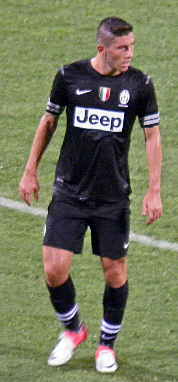 Italian footballer Luca Marrone during the friendly match Juventus-Málaga played in Salerno in the summer of 2012.